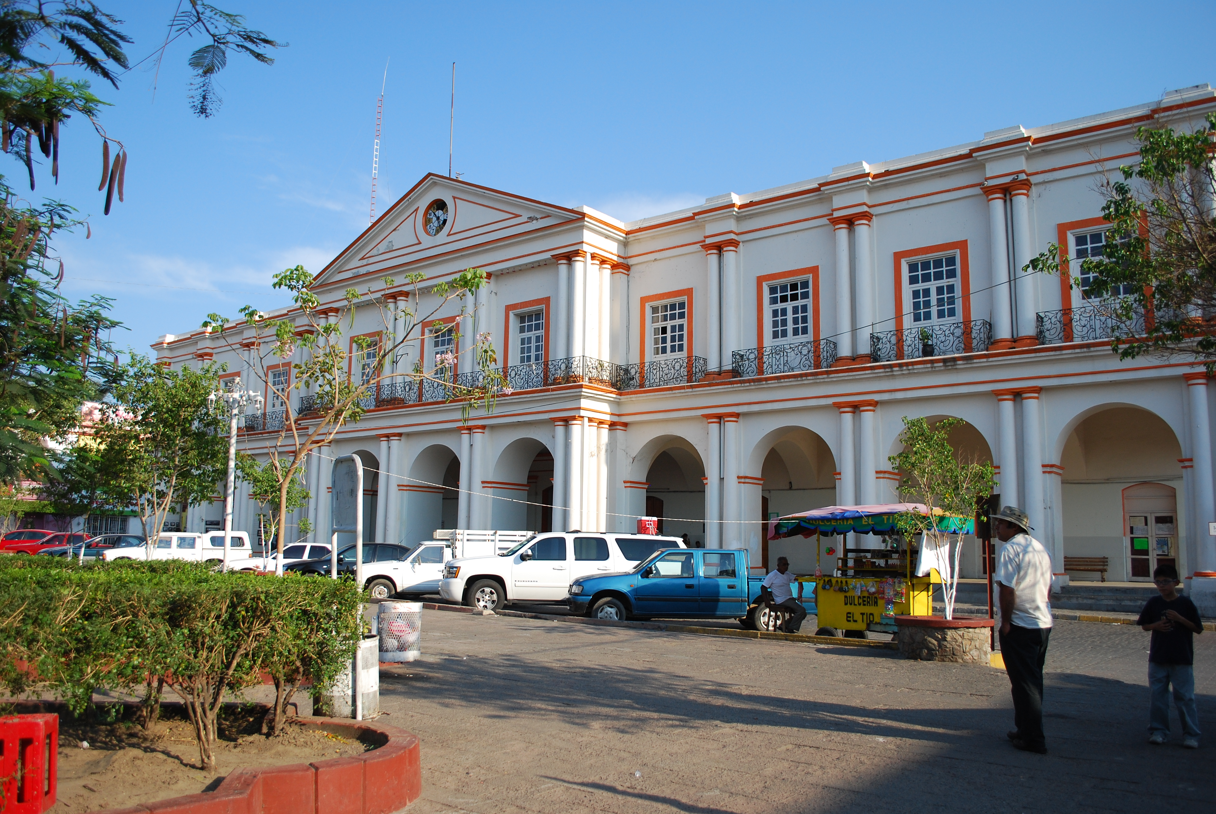 Municipal Palace of Santo Domingo Tehuantepec, Oaxaca, Mexico